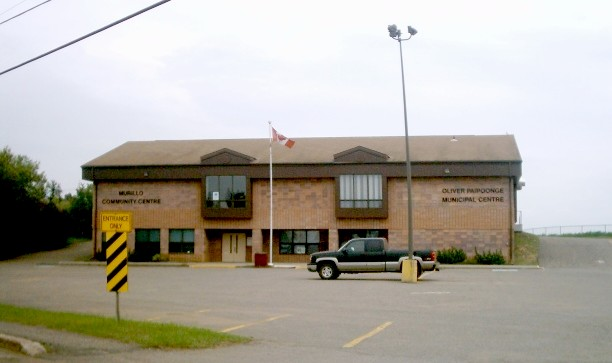 Municipal Hall and Community Centre of Oliver Paipoonge, Ontario